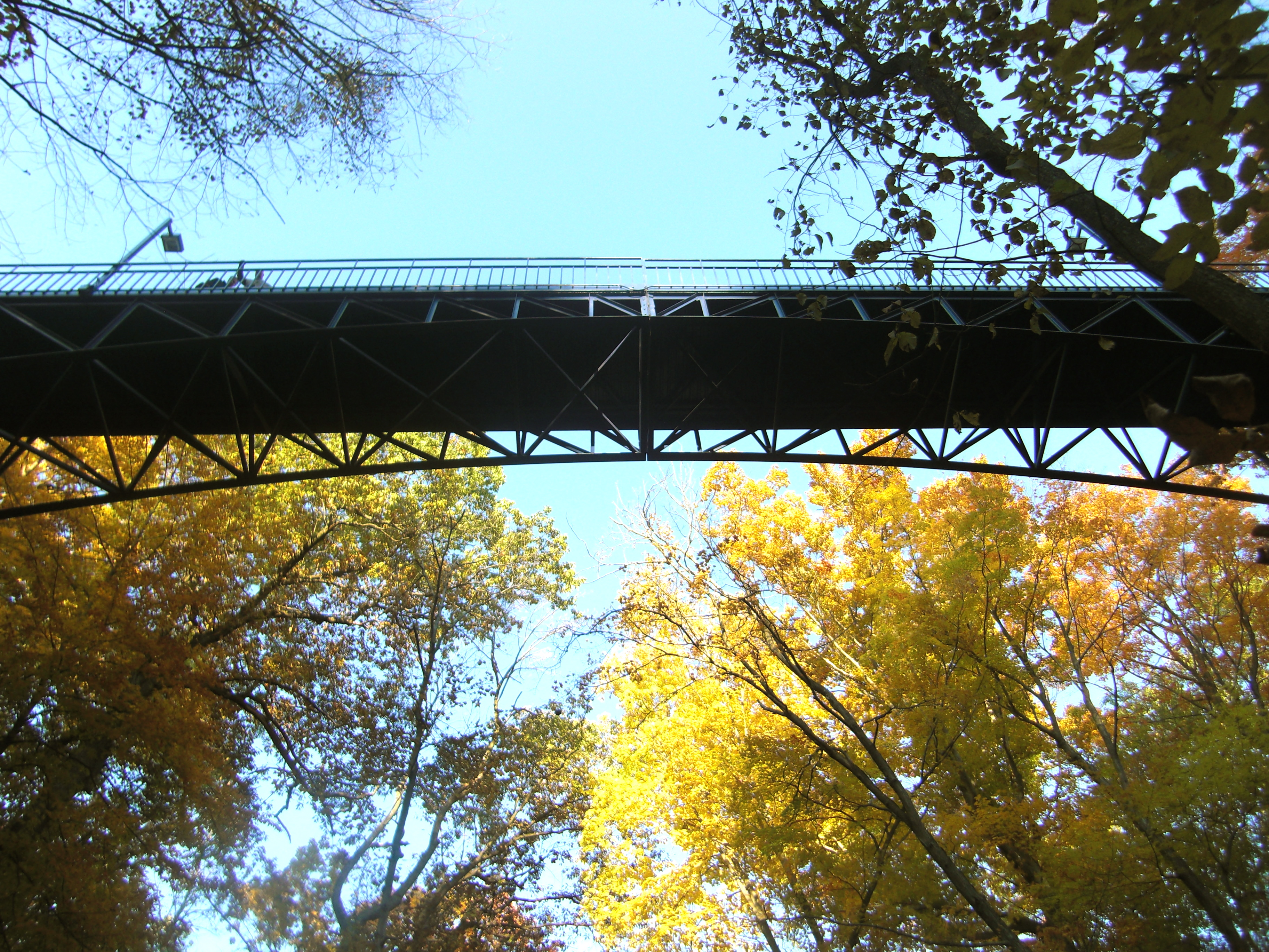 Grand Valley State University's Little Mac Bridge taken from the ravine.